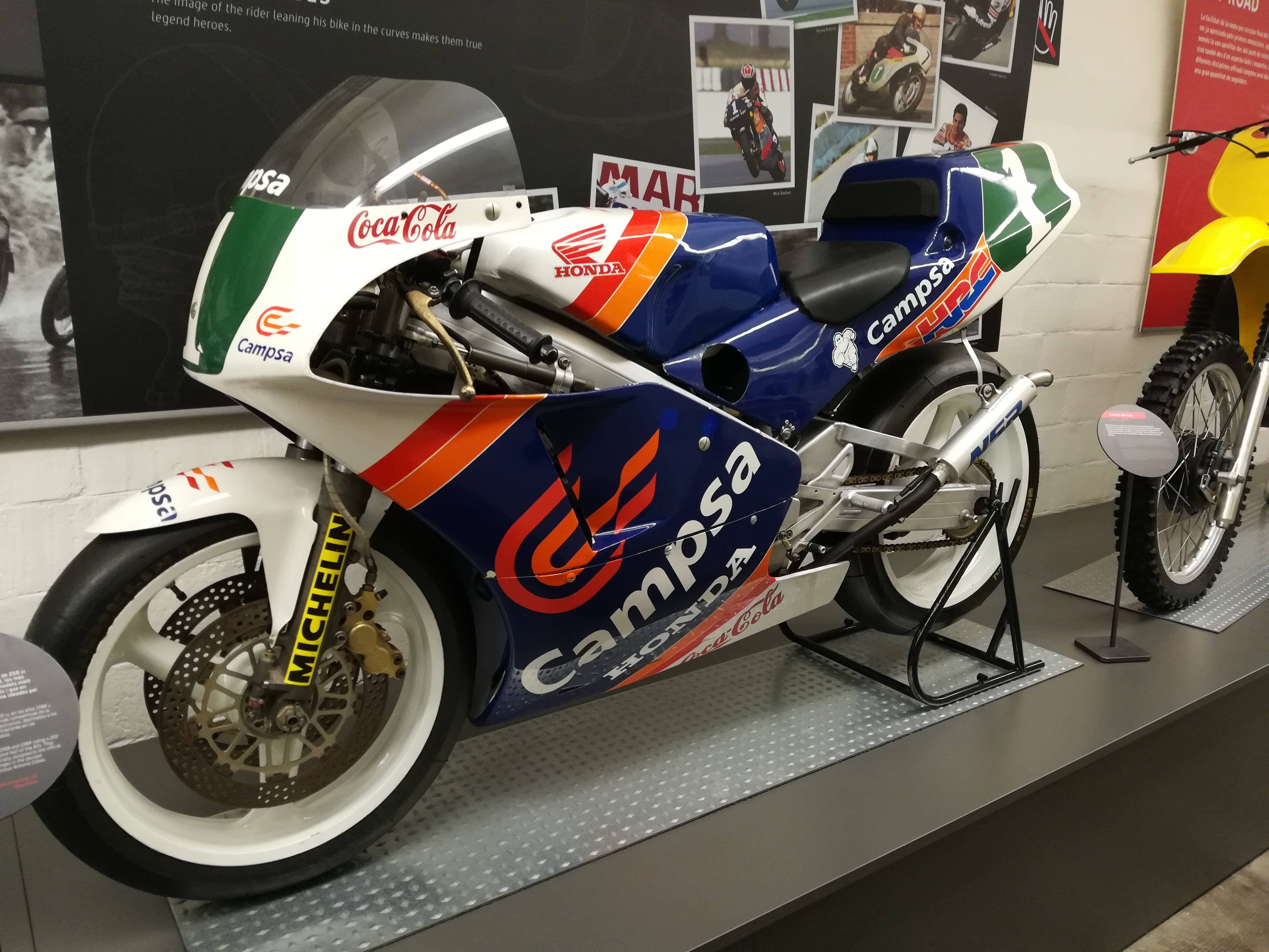 Sito Pons's Honda NSR 250. Pons rode this unit in 1989.